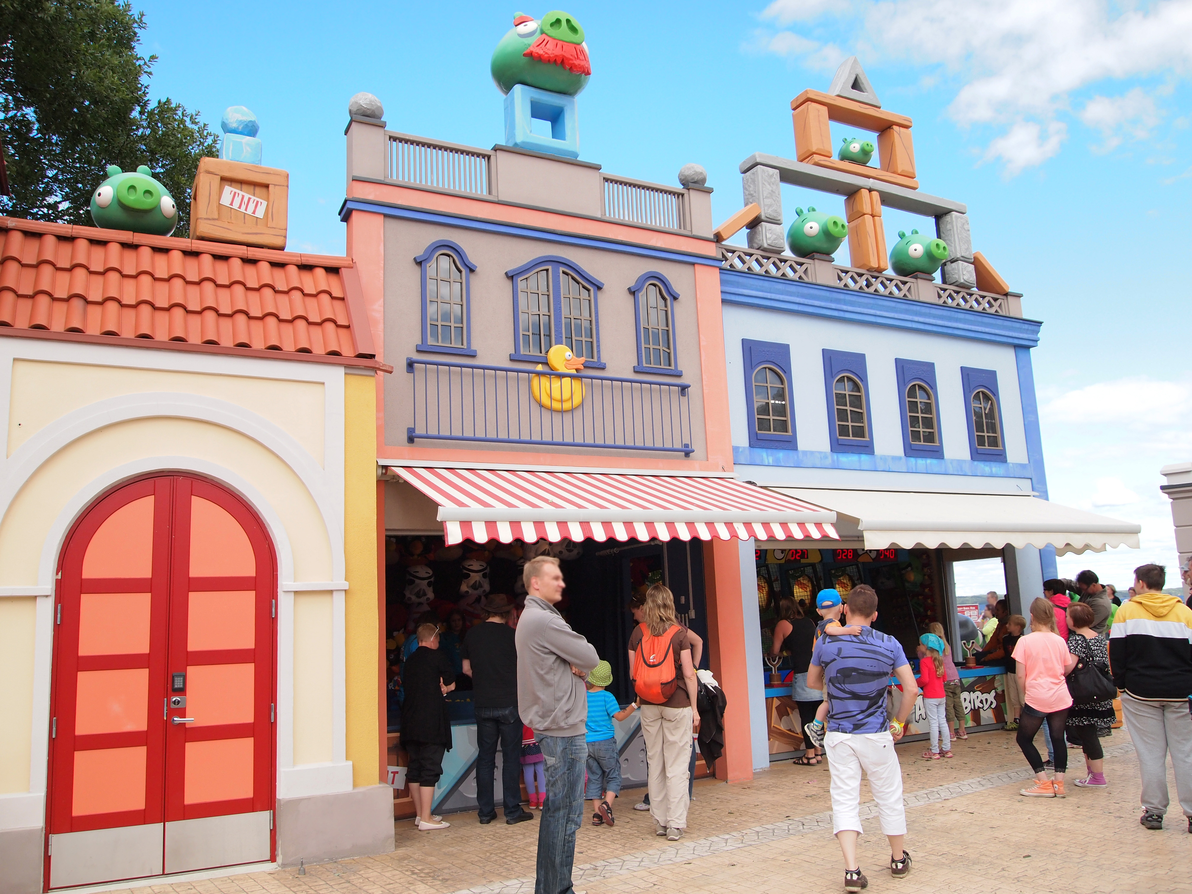 Angry Birds Land in Särkänniemi amusement park, Tampere.